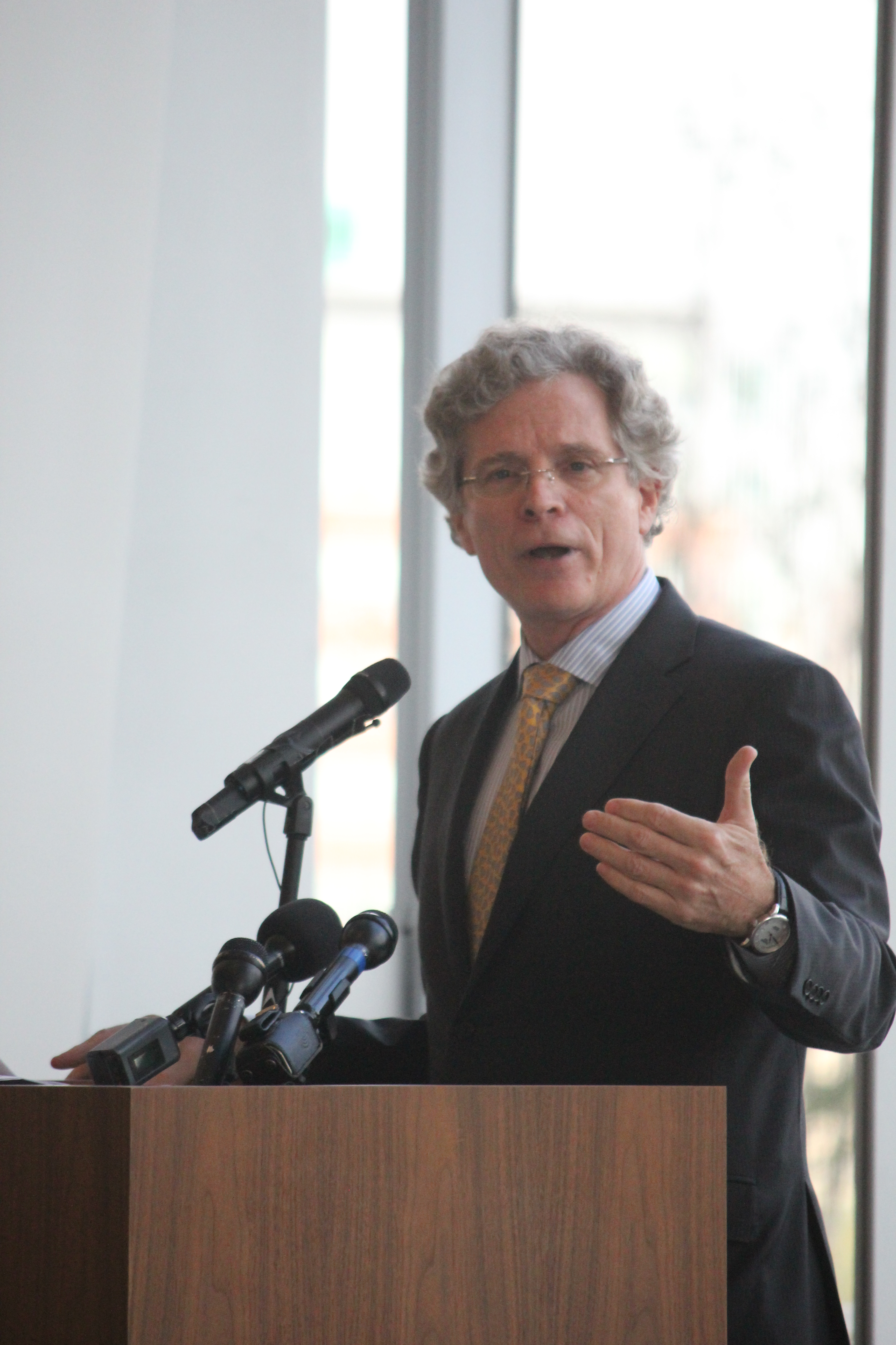 John Strangfeld, CEO of Prudential Financial, delivering an address at the opening of Prudential Tower in Newark, NJ - September 2015